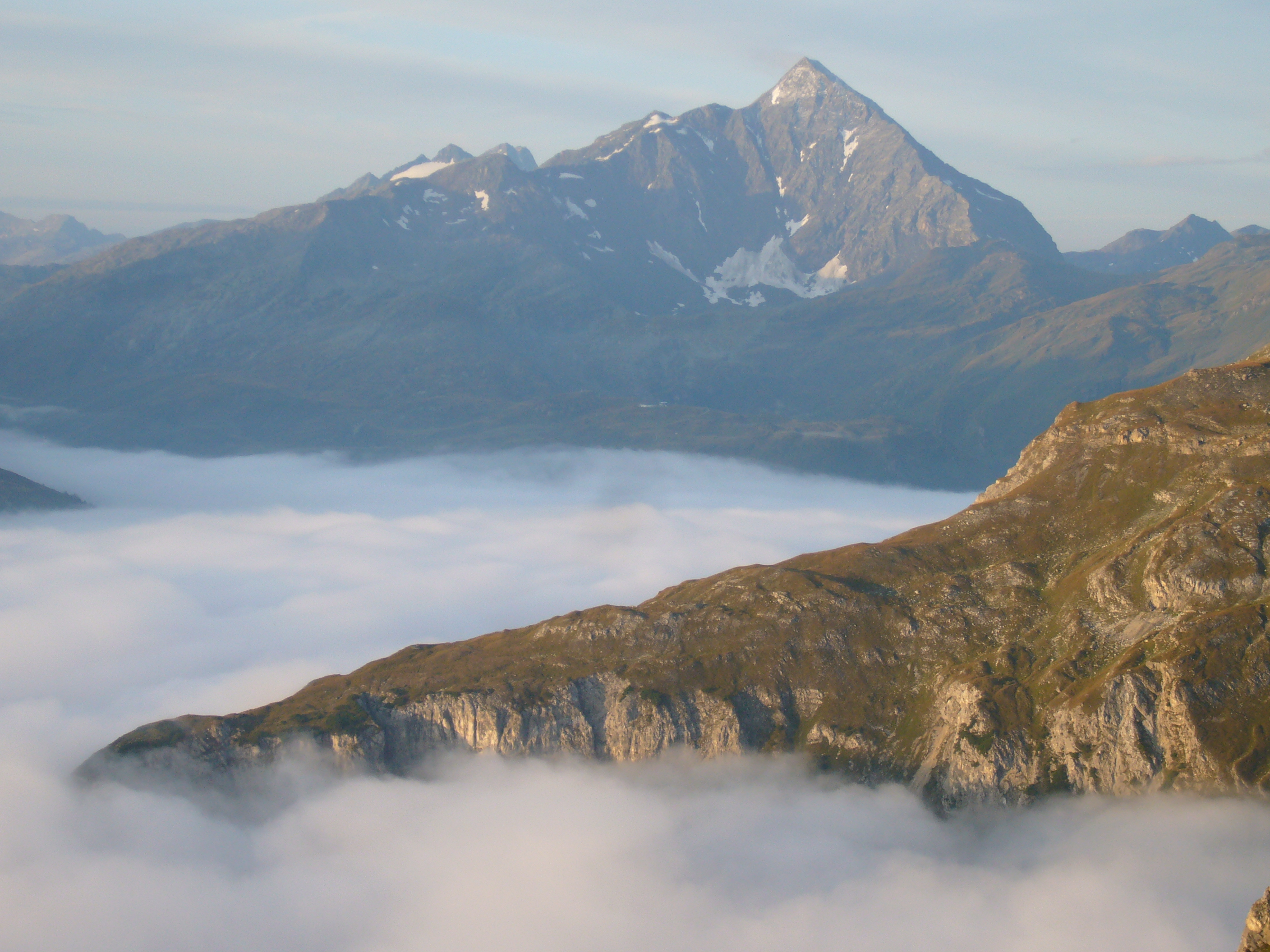 Northeastern view of Piz Tambo across the valley Hinterrheintal. The fog to the left leads to Splügen Pass.